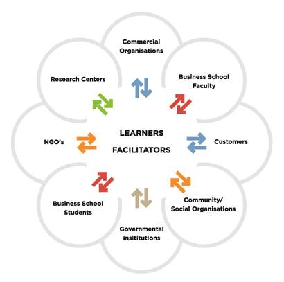 Participants in the collaboratory process, source Fernando D’Alessio